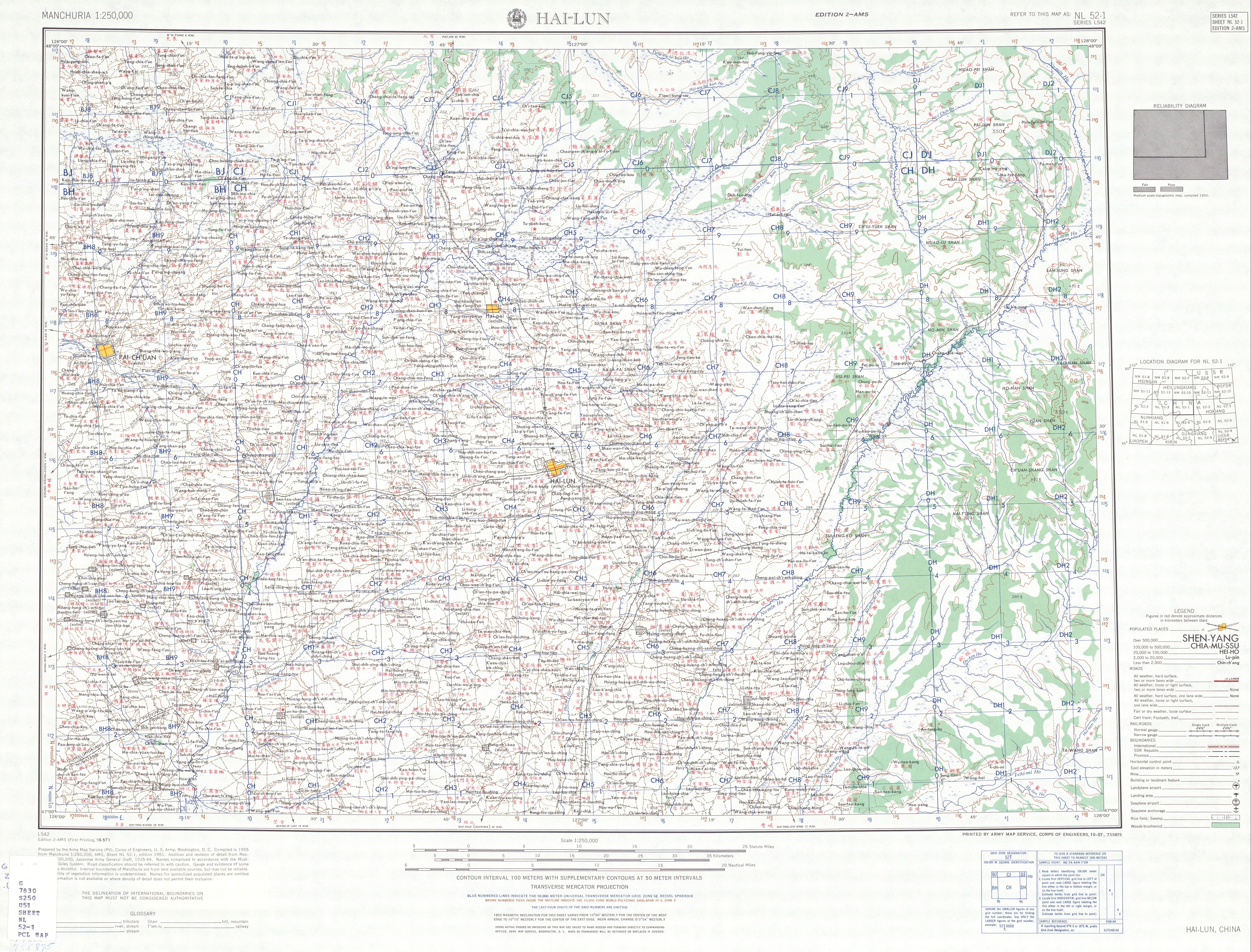 Manchuria AMS Topographic Maps